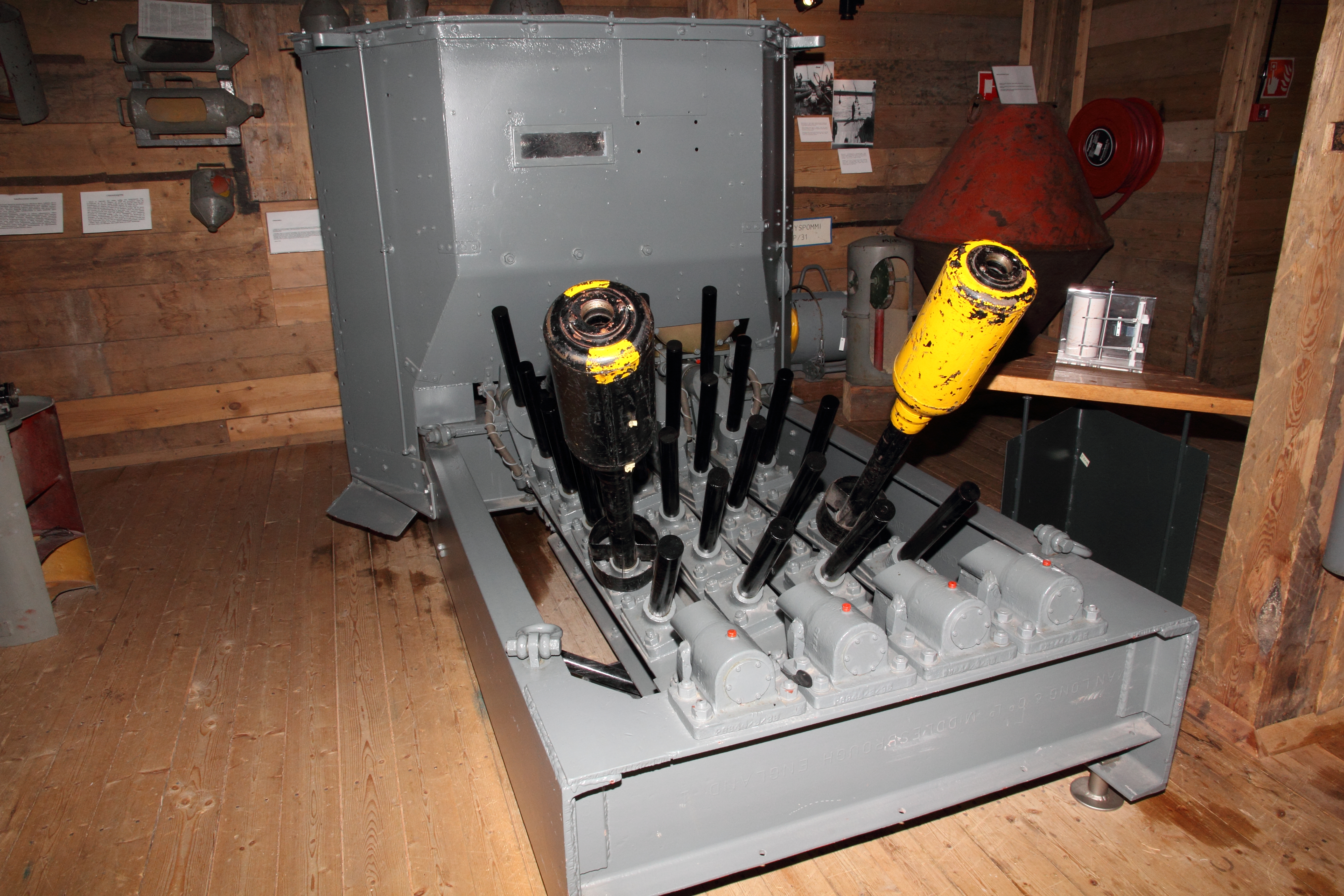 Hedgehog ASW mortar from training ship Matti Kurki in Forum Marinum maritime museum.